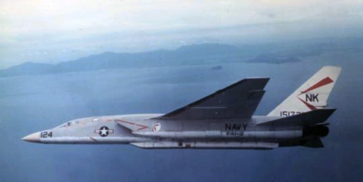 A U.S. Navy North American RA-5C Vigilante of heavy reconnaissance squadron RVAH-12 Speartips beginning its reconnaissace flight off North Vietnam in 1967. RVAH-12 was assigned to Attack Carrier Air Wing 14 (CVW-14) aboard the aircraft carrier USS Constellation (CVA-64) for a deployment to Vietnam from 29 April to 4 December 1967.